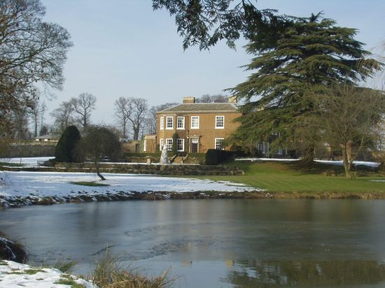 Manor House, Kirby Sigston. Taken on a snowy day in March 2004, complete with snowman.